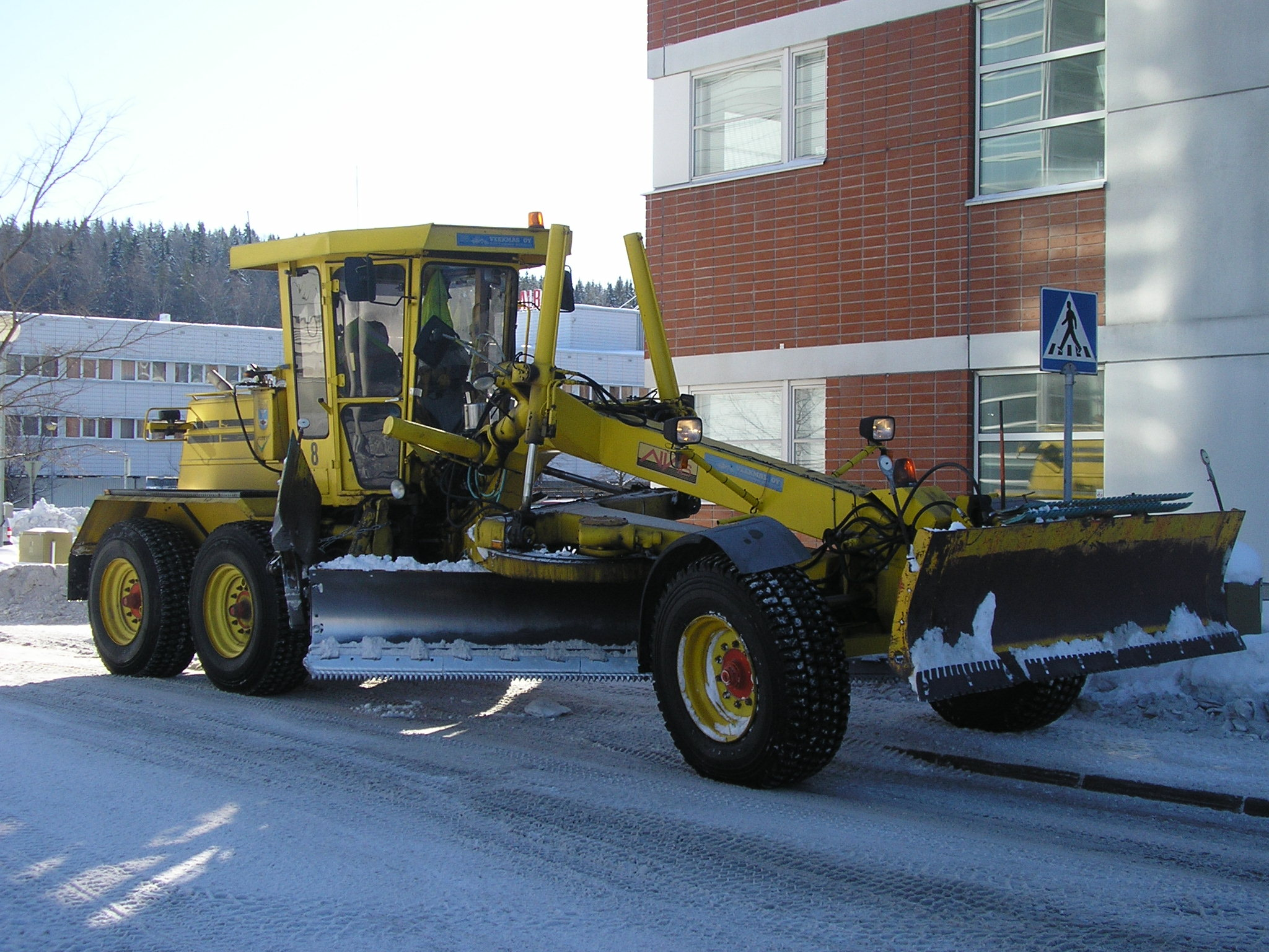 Veekmas Grader in Jyväskylä, Finland